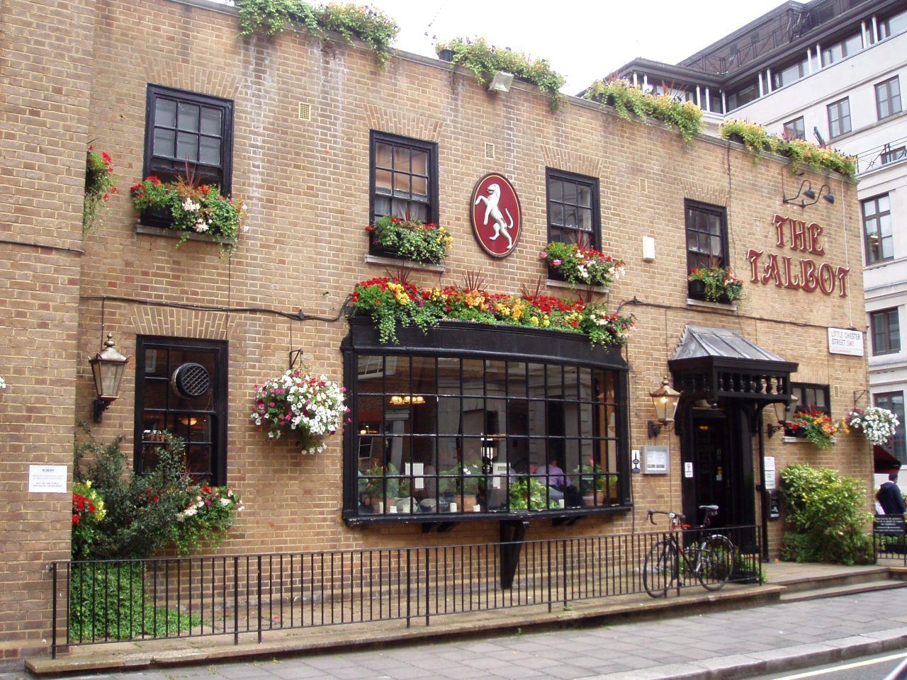 A pub hidden away behind Buckingham Palace. Address: 1 Little Chester Street. Owner: Punch Taverns [Spirit Group]. Links: Randomness Guide to London Fancyapint Beer in the Evening Dead Pubs (history)